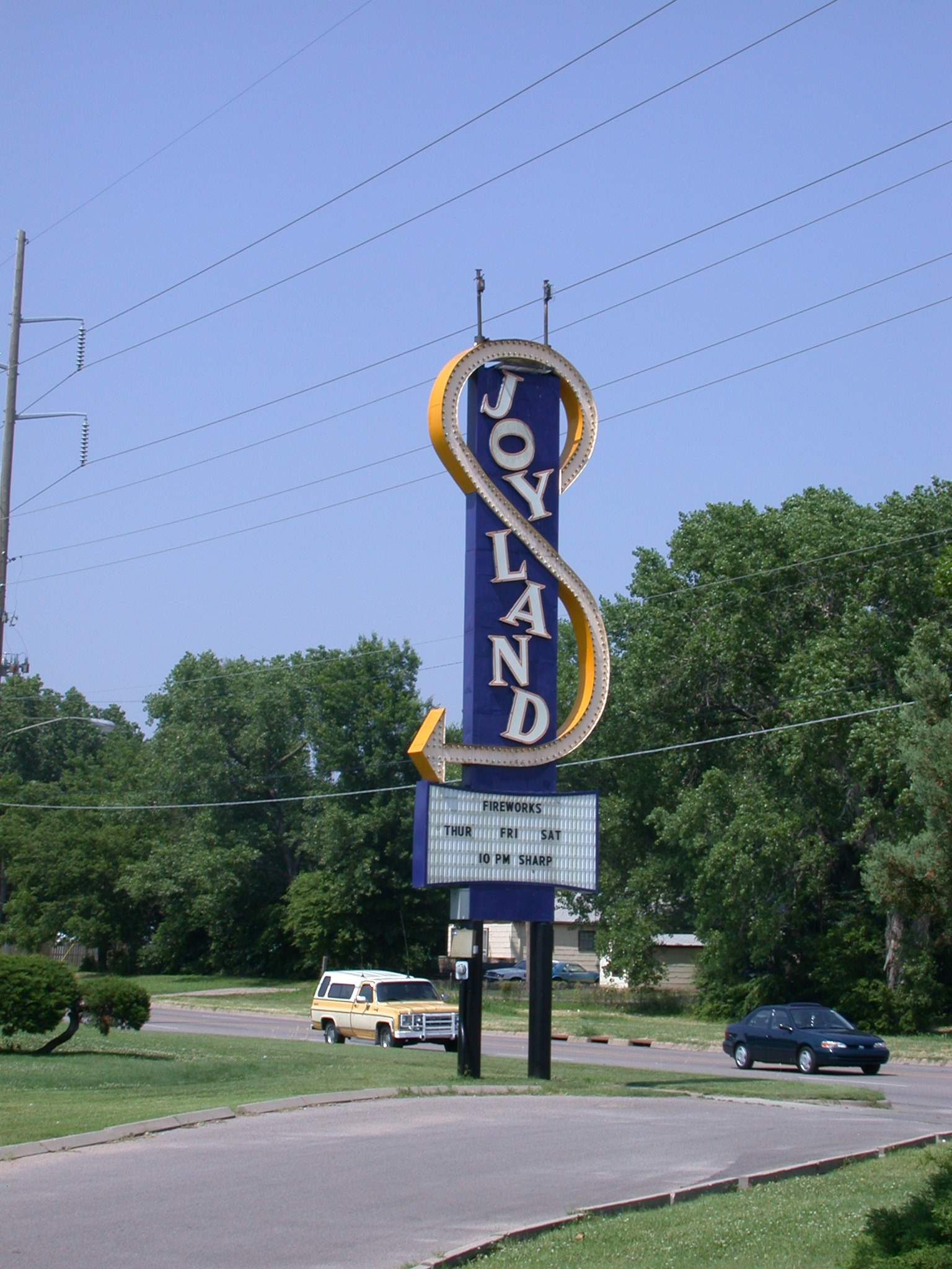 Sign for Joyland amusement park in Wichita, Kansas, as of 2003. In June 2014, the sign was sold to the Historic Preservation Alliance of Wichita and Sedgwick County, dismantled, and removed for local storage and eventual restoration.